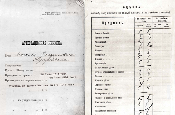 Report card of Vasily Feofilovich Kuprevich